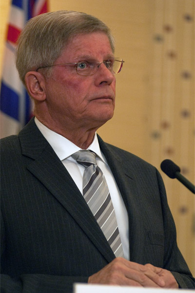 Picture of politician John Cummins. Wilson Wong photo.